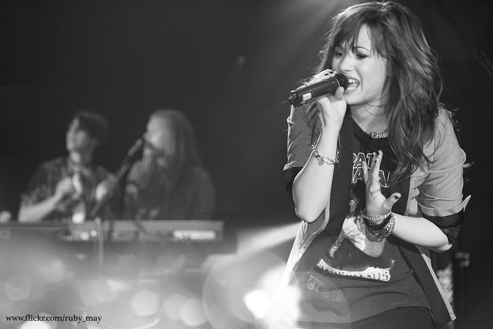 Demi Lovato in concert in 2008